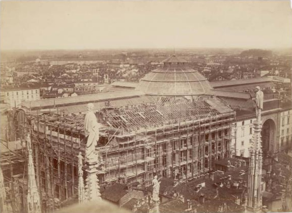 Pompeo Pozzi (1817-1880), The building of Palazzo Haas (1870-73) next to Galleria Vittorio Enanuele in Milan, Italy.